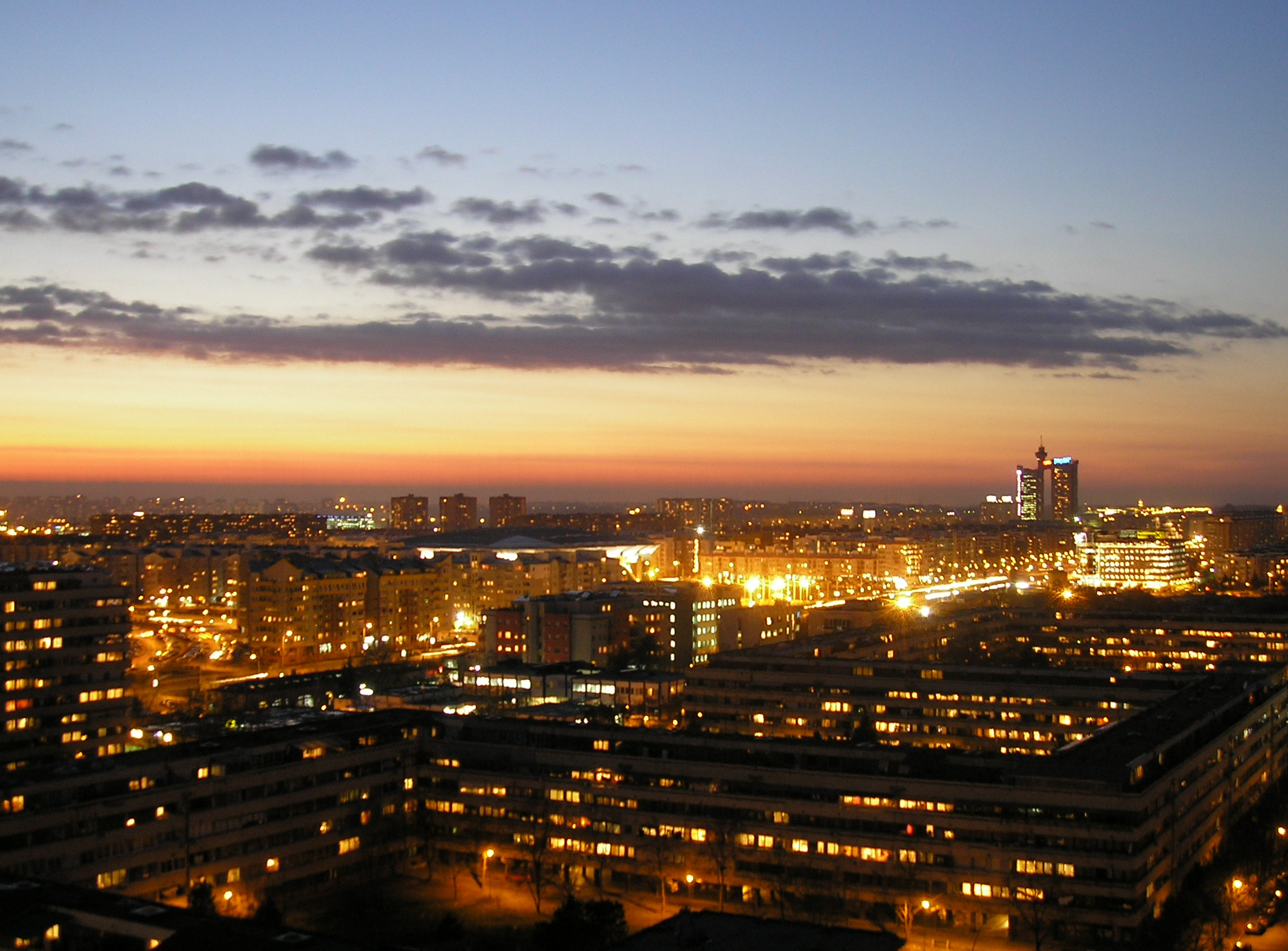 A view to west of the New Belgrade on sunset.